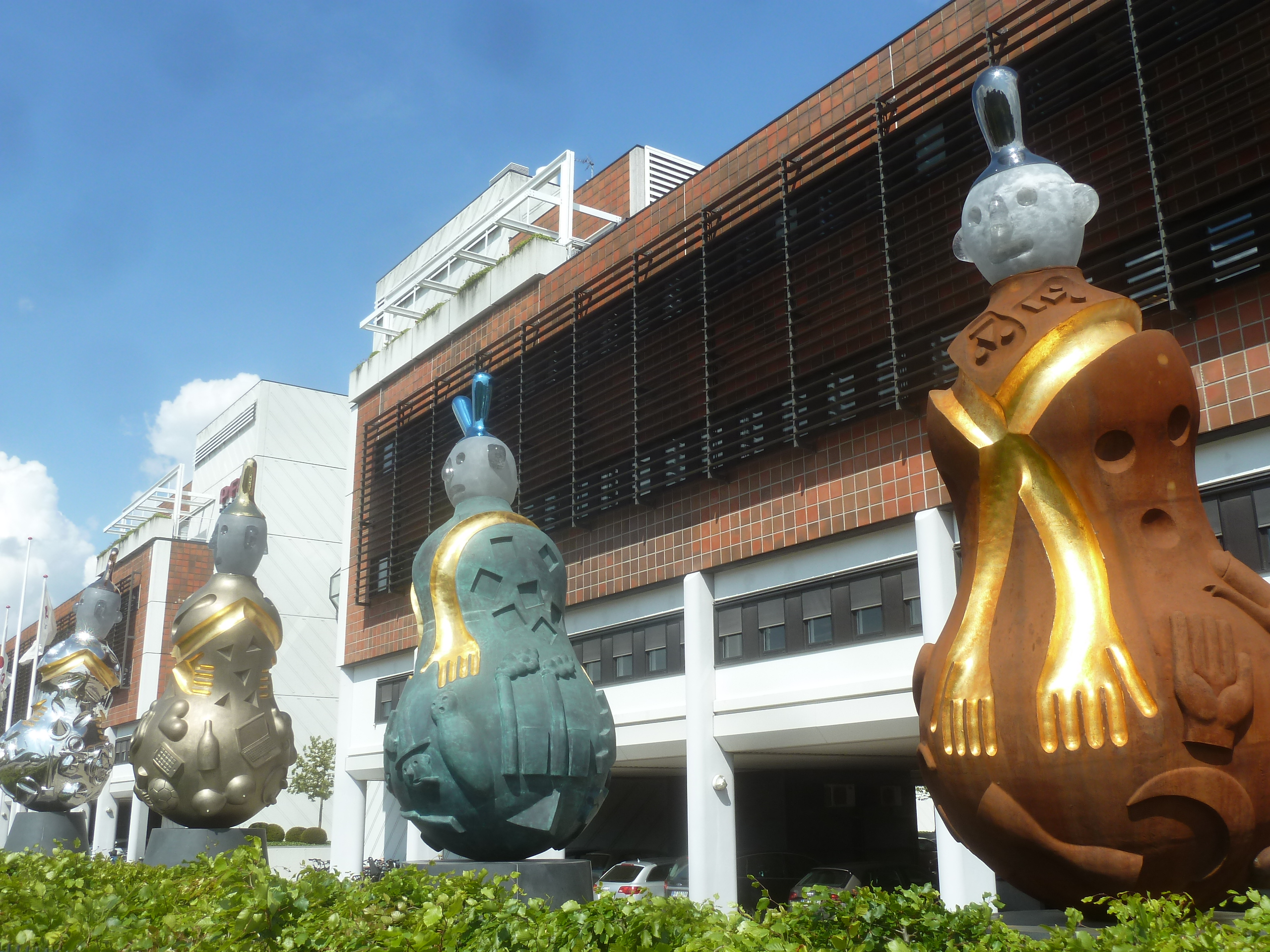 The PFA head office in Nordhavn, Copenhagen, Denmark